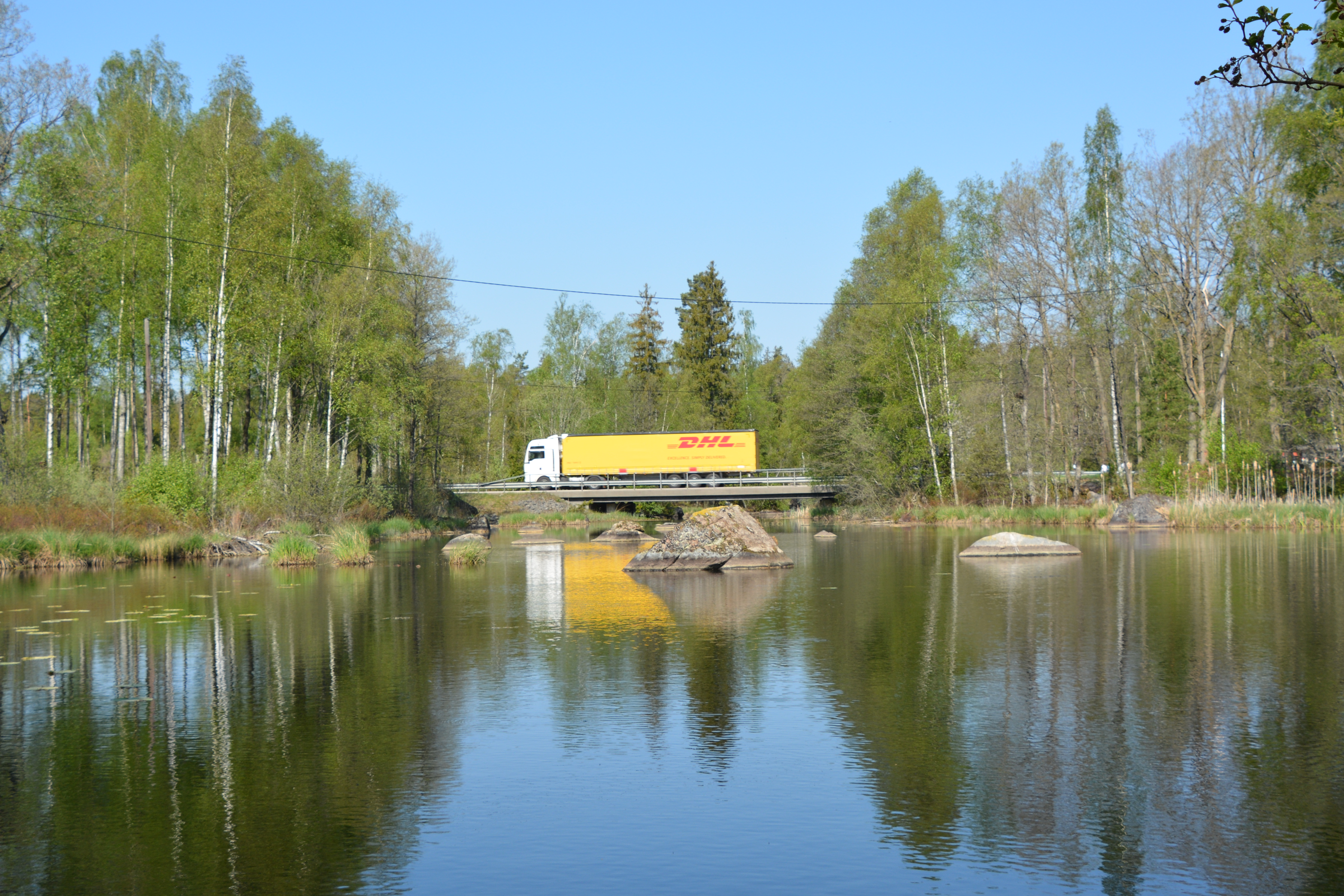 DHL lorry passing Bräkneån at Knällsberg in Tingsryd Municipality, Sweden